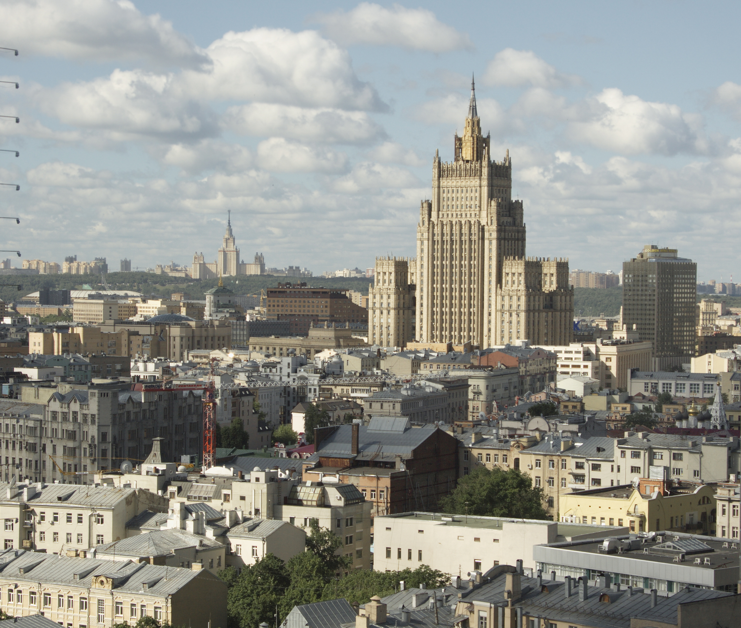 Moscow - centre, Arbat Street, Ministry of Foreign Affairs of Russia building